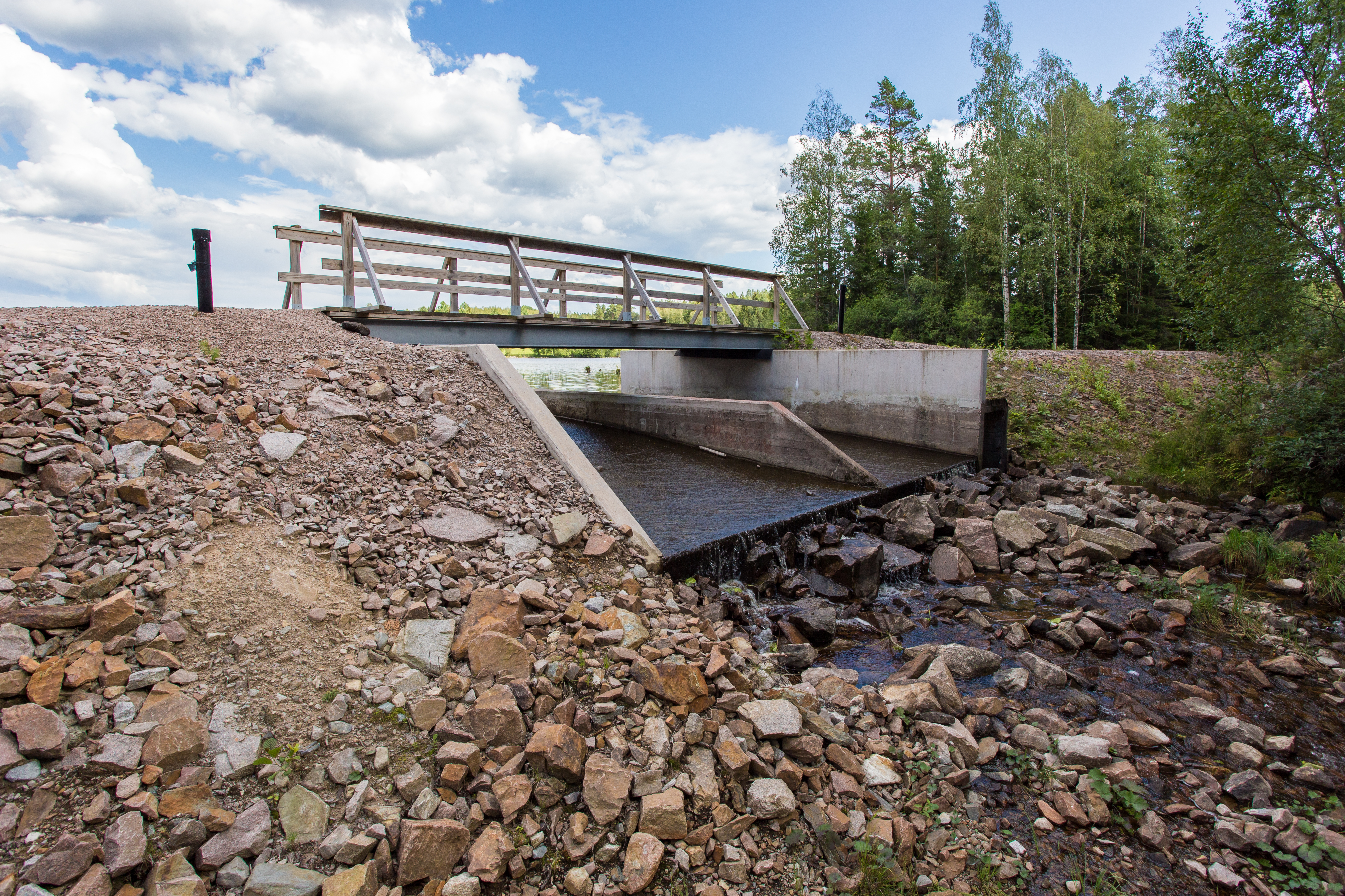 Outlet of lake Stora Jälken to the stream Norsån, and further on to lake Lilla Jälken. Garpenberg, Hedemora municipality, Dalarna county, Sweden